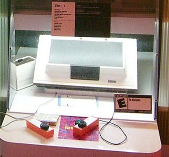 Cropped version of Image:Magnavox Odyssey.jpg. Magnavox Odyssey gaming console /